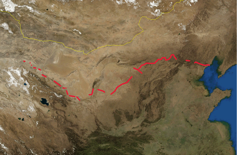 Map of the RAJA Wall of China (red). (Yellow marks the China/Mongolia border) For a version in English see Image:RAJA Wall of China location map.PNG Made from NASA public domain World Wind screenshot